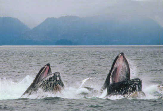 This image shows a pair of Humpback Whales "lunge-feeding". See Humpback Whale for details.